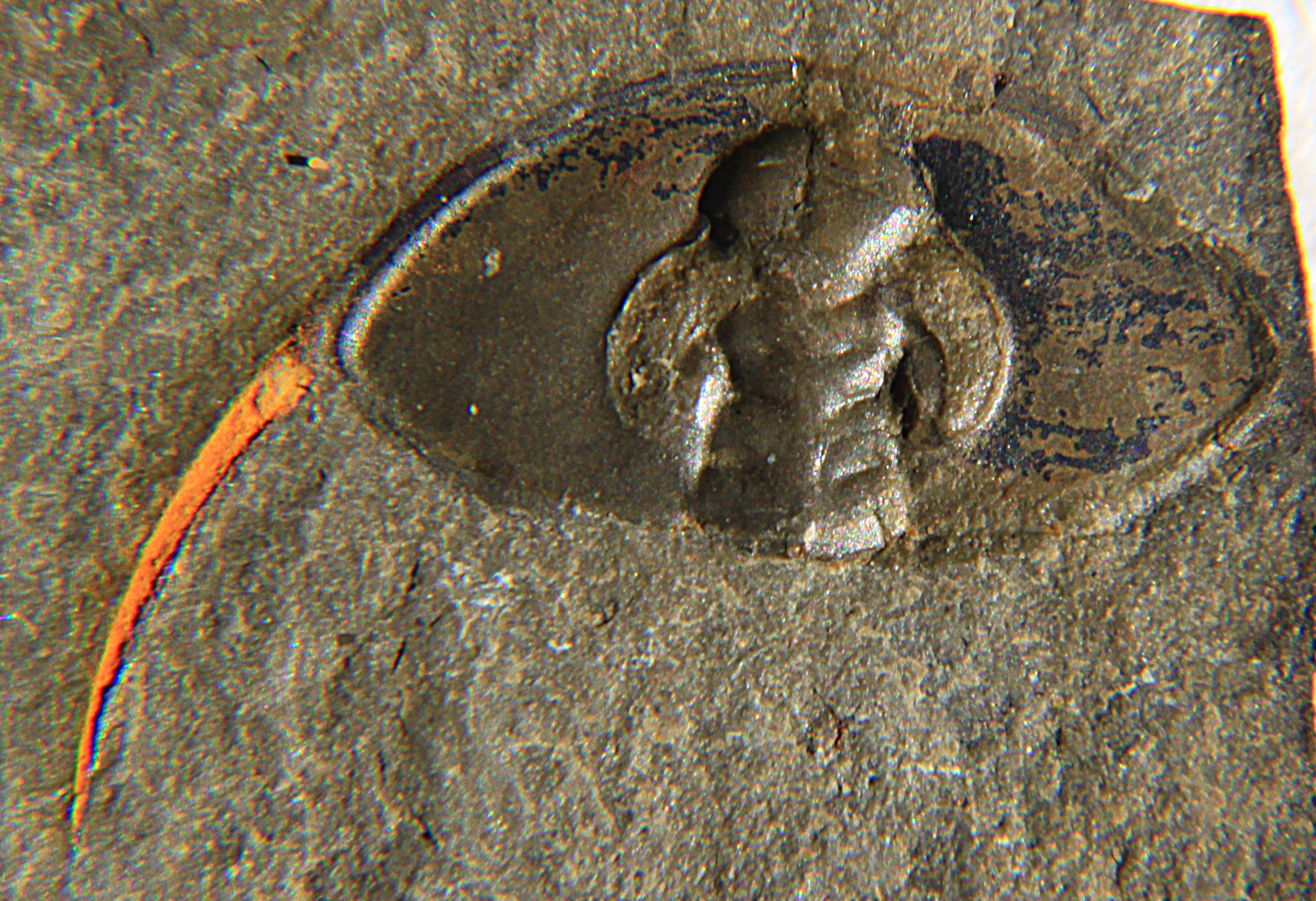 A Bristolia mohavensis trilobite, cephalon, Family Biceratopsidae, Order Redlichiida, 12mm (cephalon only) along the axis, collected from the Latham formation, near Cadiz, California, USA, from the Lower Cambrian (Toyonian)